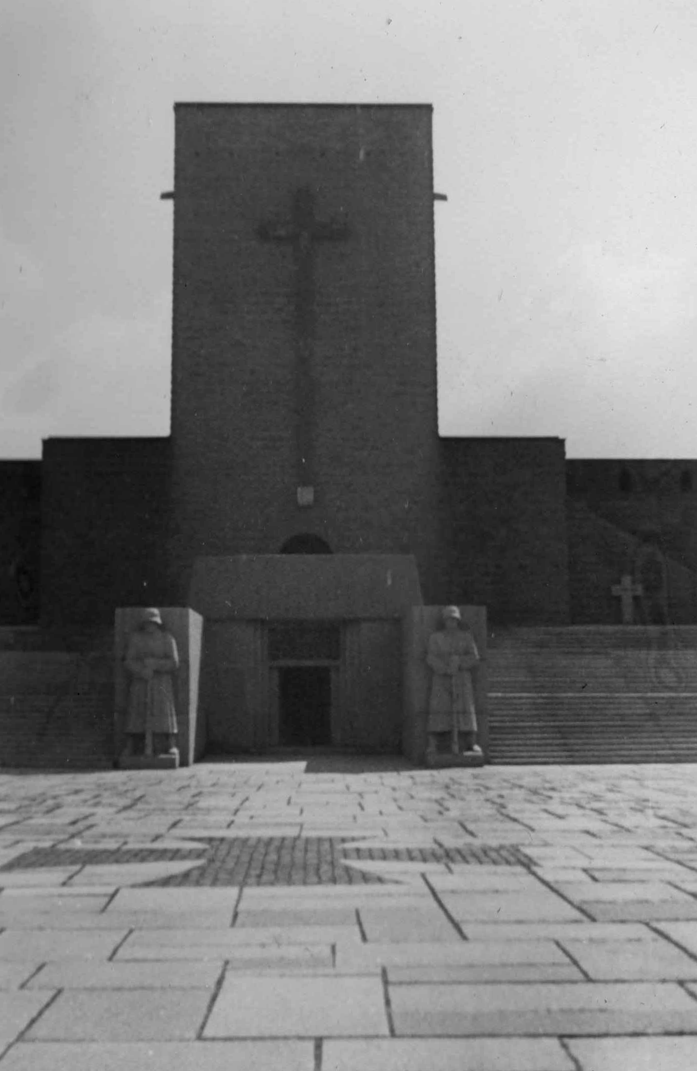 Tannenberg-Memorial in June/July 1940